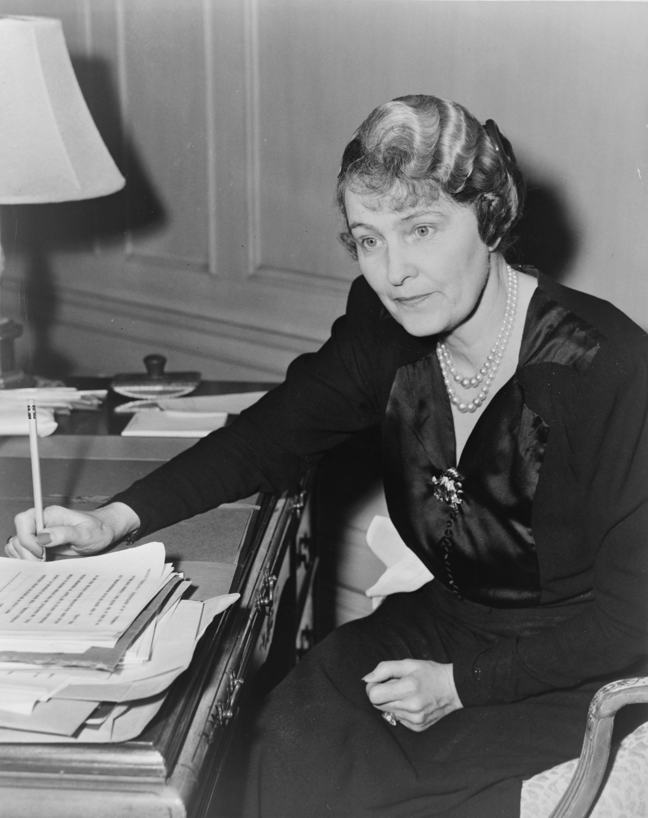 Marjorie Merriweather Post Hutton Davies, American socialite and founder of General Foods, Inc.